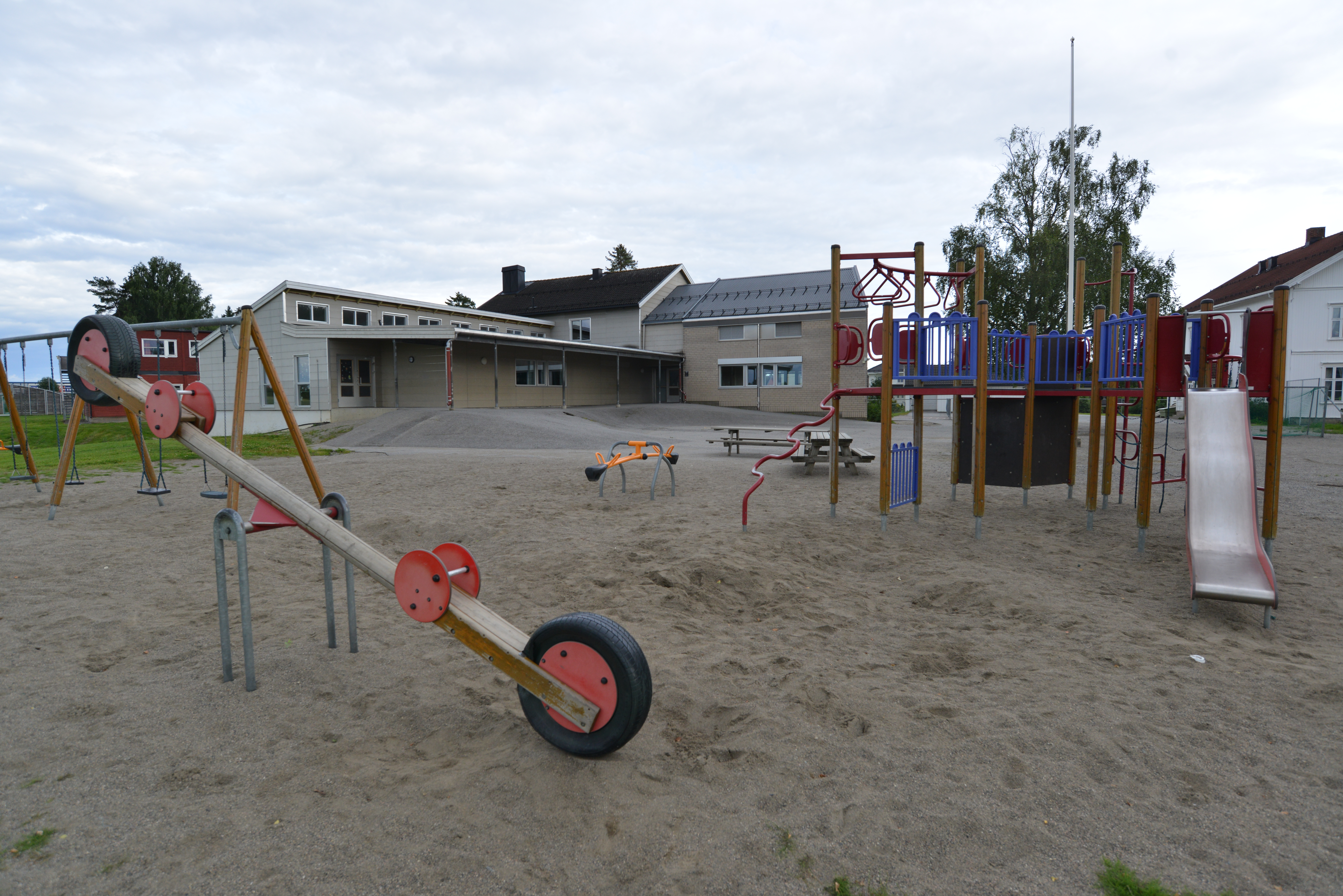 Åreppen school at Kløfta